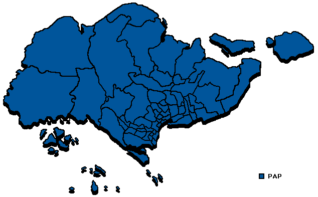 Results of the singaporean general election, 1968, by parliamentary constituency.